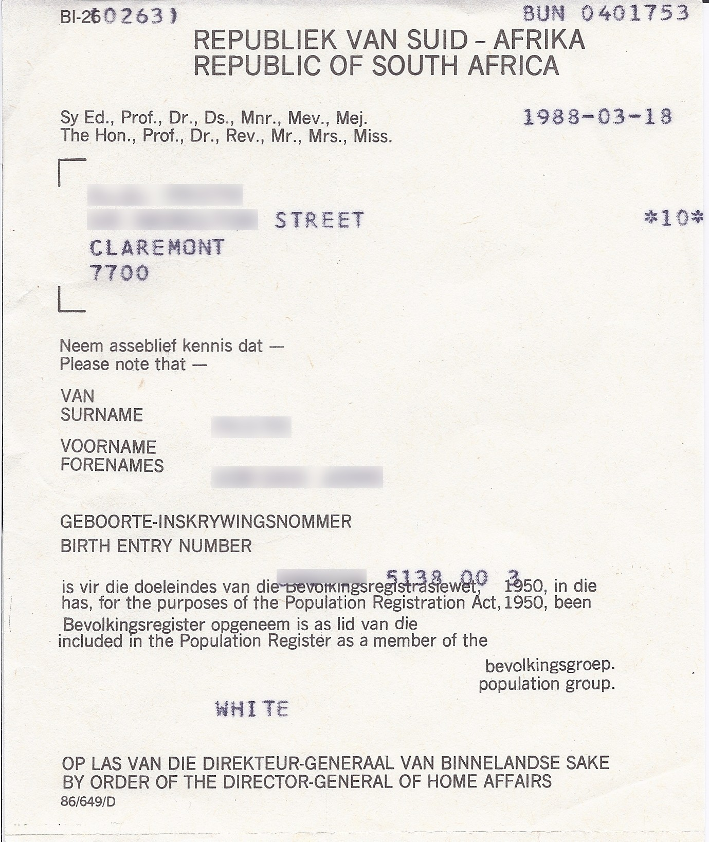 A certificate issued in 1988 by the South African government in terms of the Population Registration Act indicating the registration and racial classification of a newborn on the Population Register.